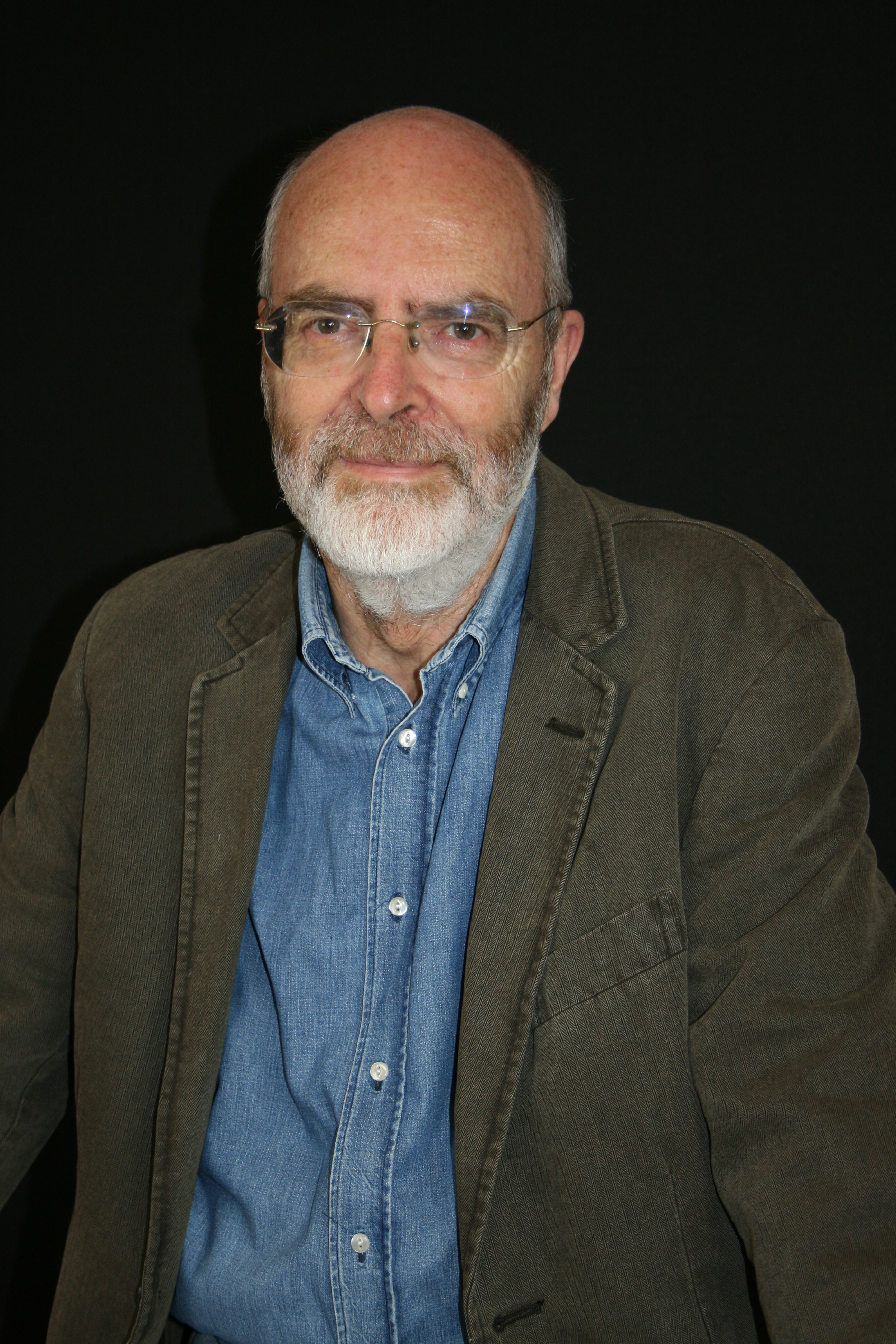 Personal photograph of Anthony Judge